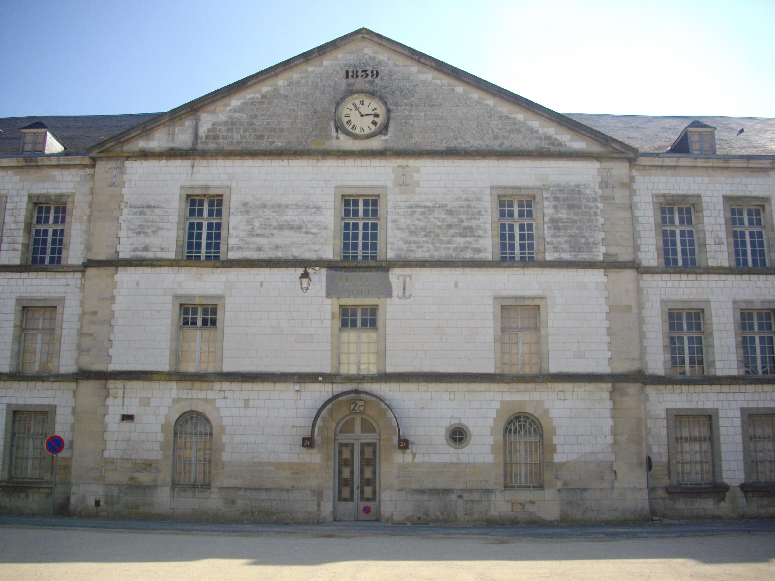 Tirlet quarter in Châlons-en-Champagne (Marne, France) : building known as "building of the clock" .